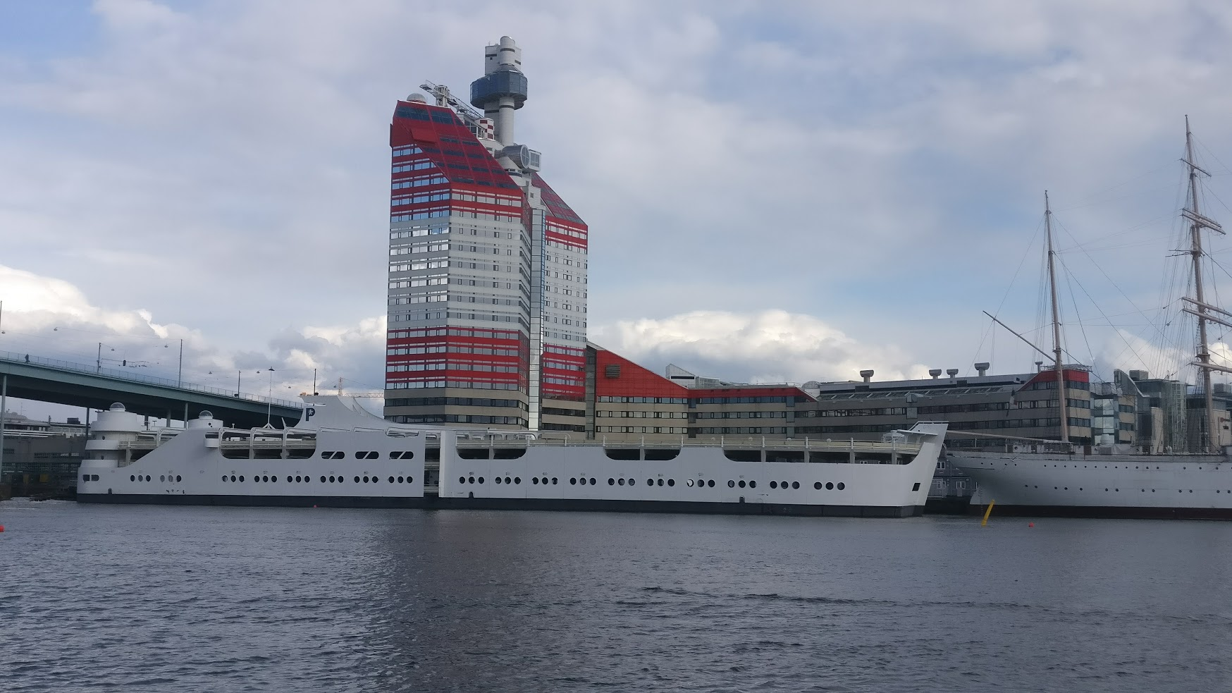 The parking boat, P-Arken at it's new position besides Götaälvbron